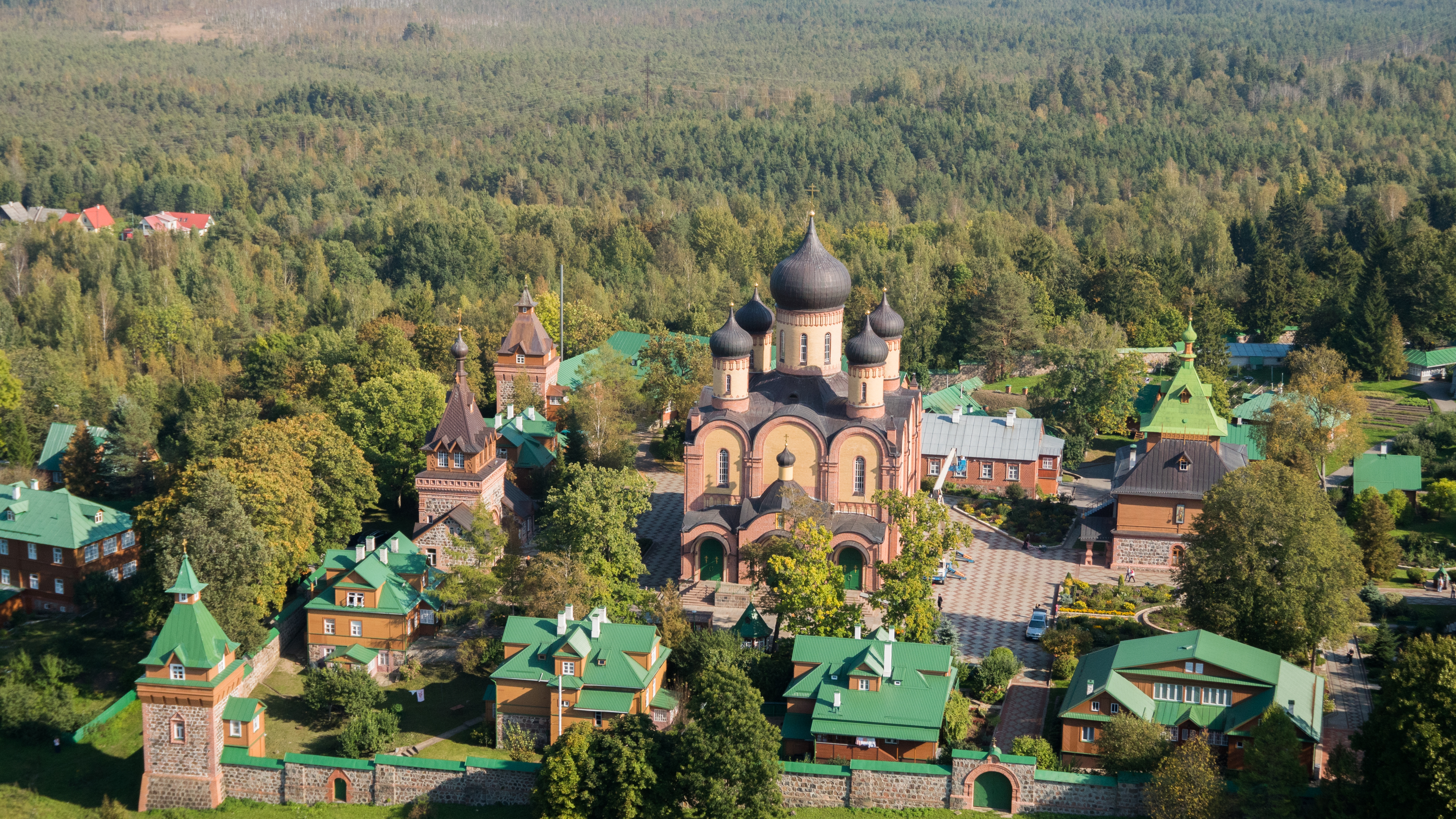 Pühtitsa Convent in Illuka Parish, Ida-Viru County, Estonia.